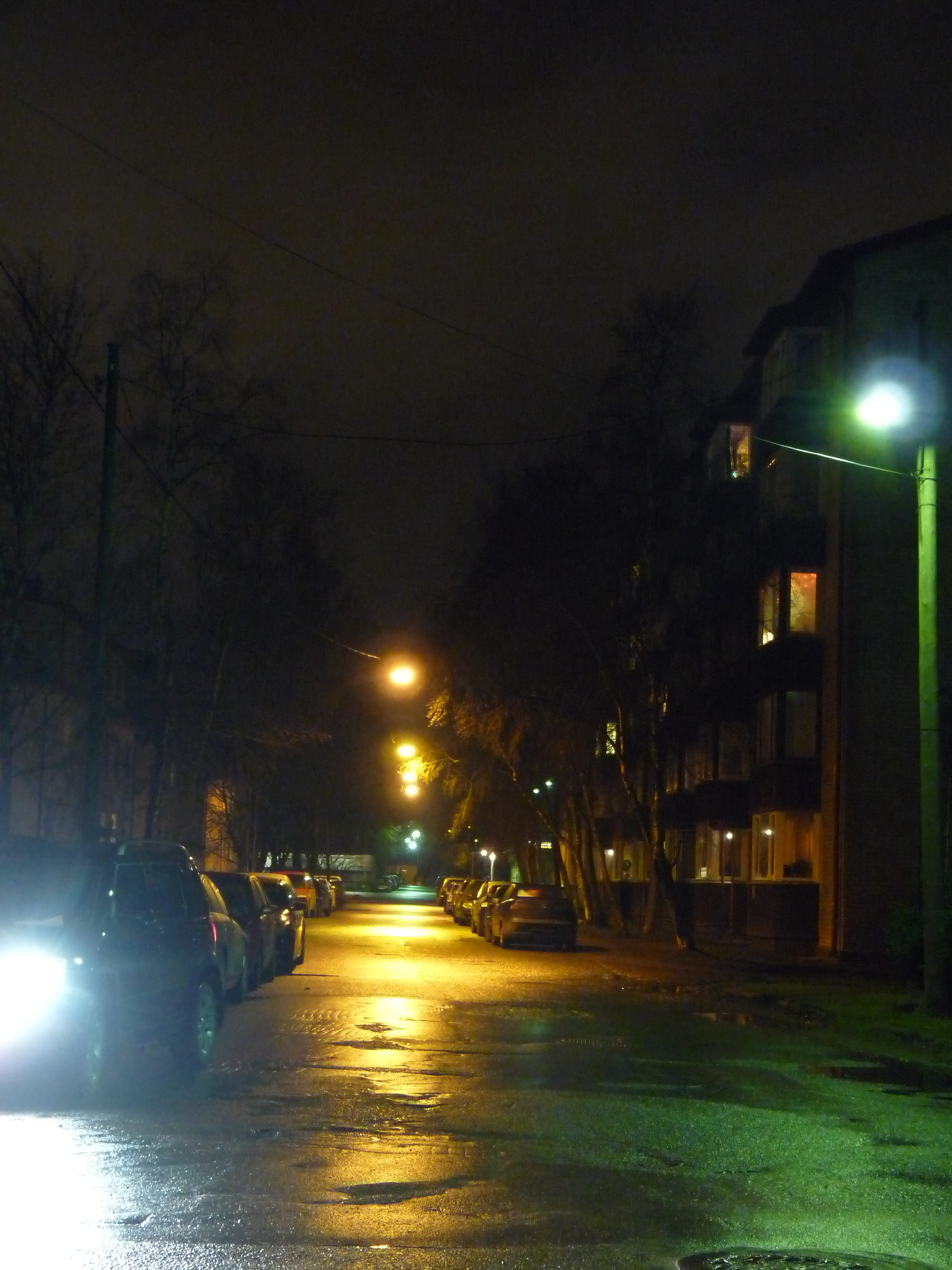 Sikupilli street in Tallinn, Estonia